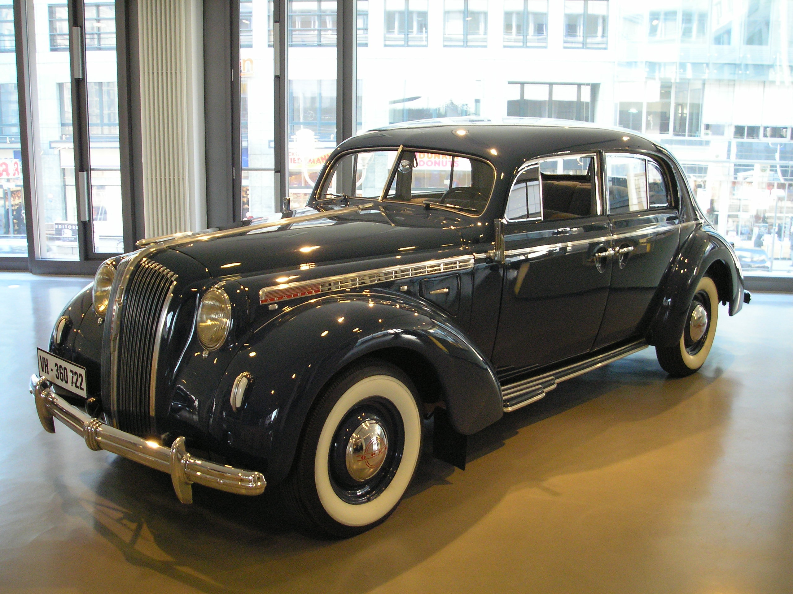 Description: Opel Admiral, im Opel in Berlin Zentrum an der Friedrichstraße. Baujahr 1938. Opel Admiral, image taken at the Opel Centre at Friedrichstraße in Berlin. Model built in 1938. Source: self-made, I release it into the public domain. Gryffindor 17:27, 9 March 2006 (UTC)